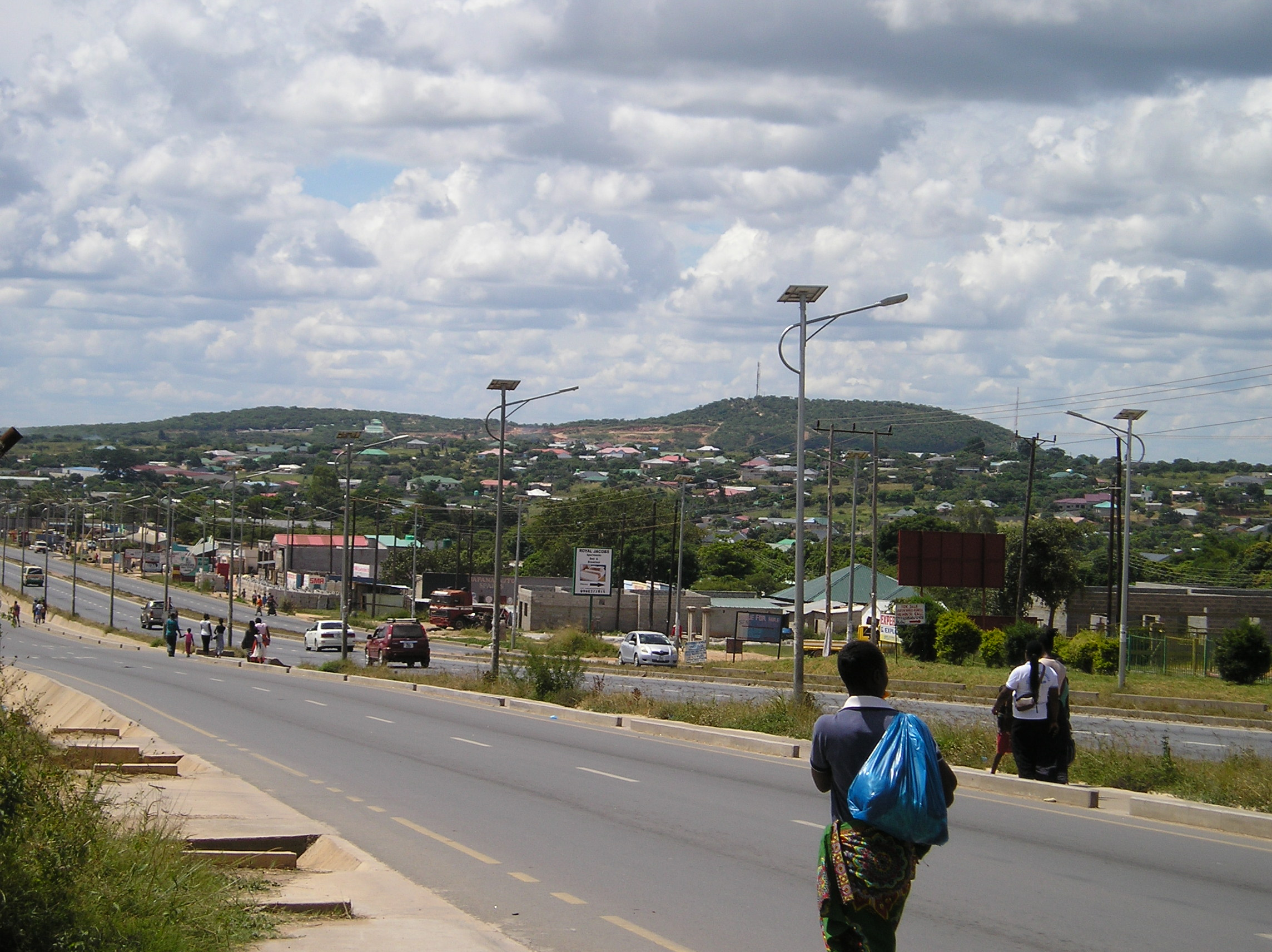 The Great northroad connects copperbelt town to Lusaka, it also links Zambia to the neighboring countries like Cong DRC and Tanzania. Its a wonderful infrastructure to make Zambia a landliked country. Chi-Chewa: Njila ikulu ya kumpoto imathandiza Lusaka kugwilizana ndi copperbelt komanso kuti Zambia igwilizane ndi maiko ena monga Congo ndi Tanzania. N'citukuko chikulu ca nseu chifukwa cithandiza Zambia kunkhala oseguka Ku maiko ena. This is an image with the theme "Africa on the Move or Transport" from: Zambia